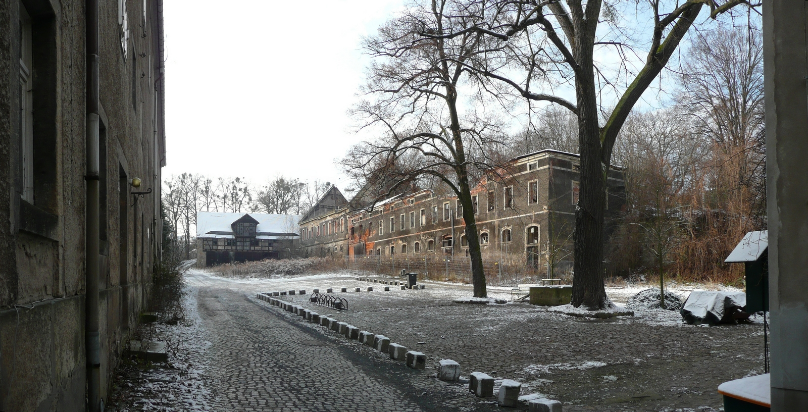 This image shows Nöthnitz Palace (Schloss Nöthnitz) in Nöthnitz (Bannewitz) near Dresden.